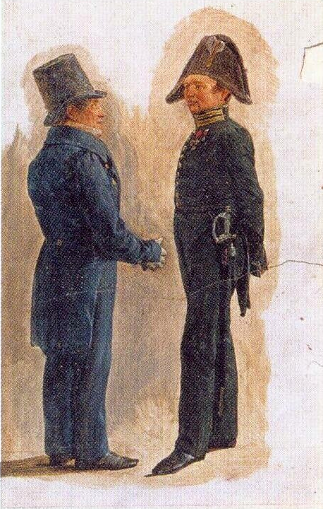 Study for painting - Parade and thanksgiving service to mark the end of military operations in the Kingdom of Poland October 6, 1831 at Tsaritsyn Meadow in St Petersburg. Size 18,9 х 12,9 cm